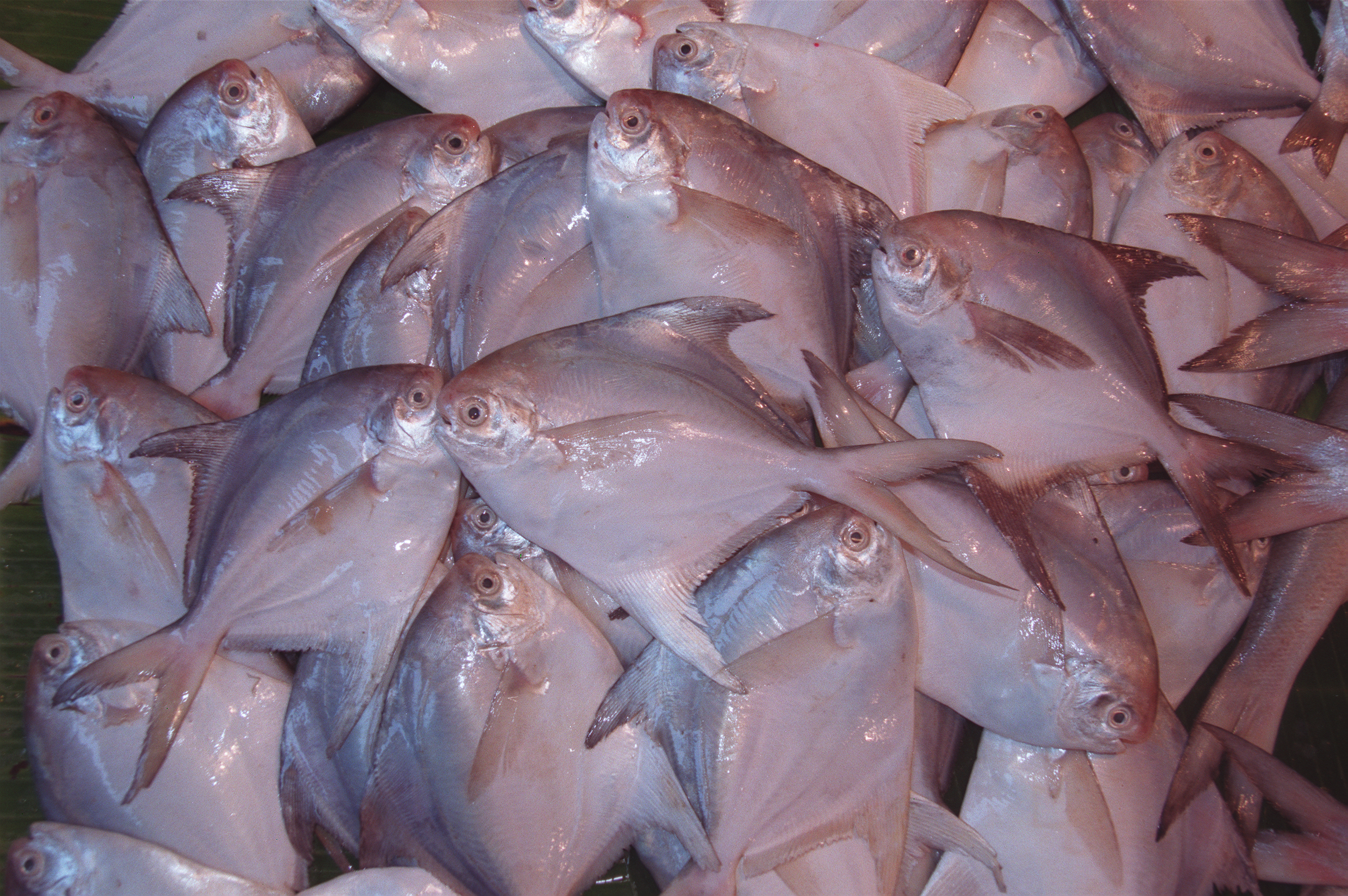 Silver or white pomfrets live in coastal waters off the Americas, Western Africa and the Indo-Pacific Region. Fish of this family are characterized by their flat body, forked tail fin and long pectoral fins. Silver Pomfret are usually silver/white in color, with few small scales.